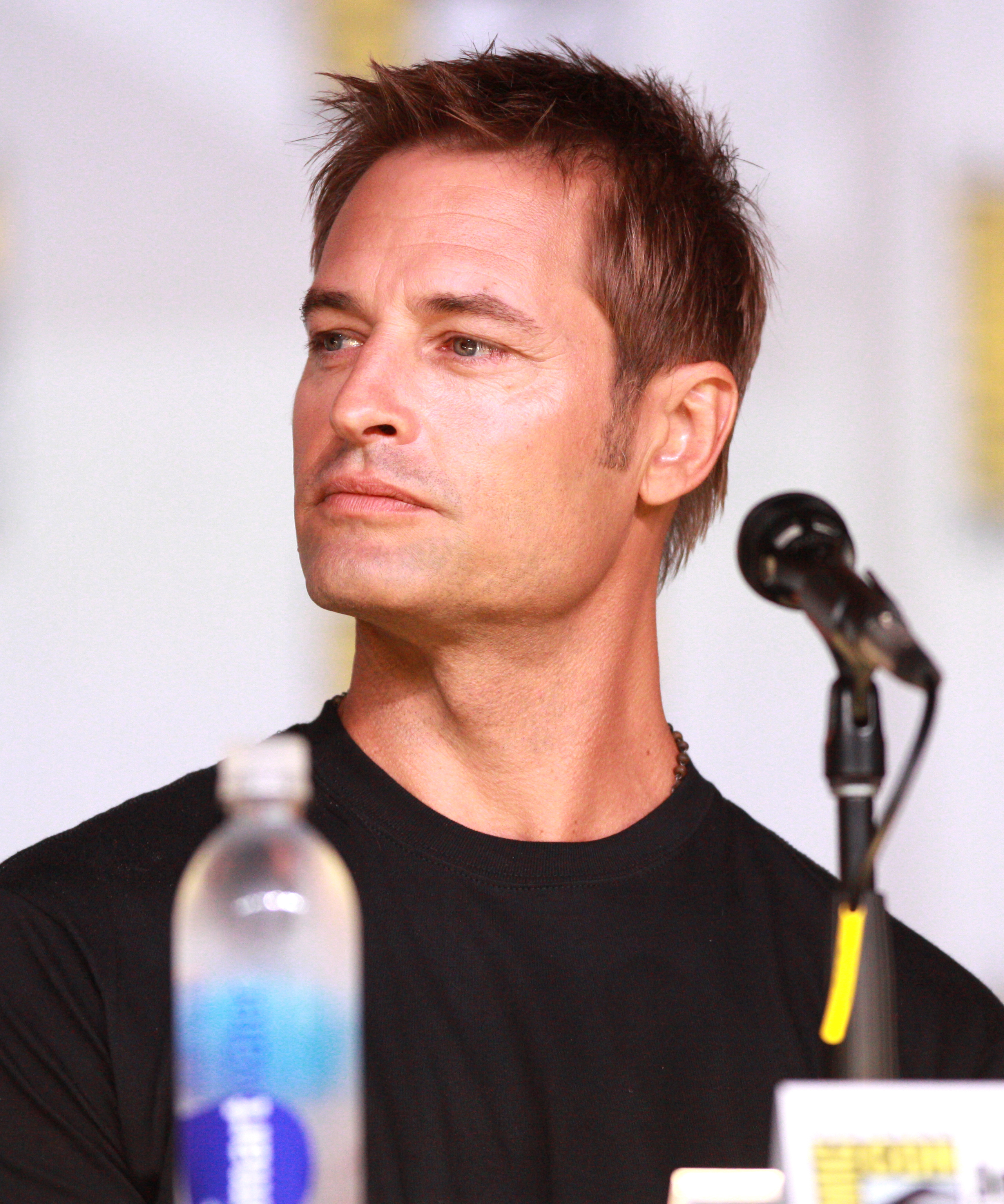 Josh Holloway at the 2013 San Diego Comic Con International in San Diego, California.